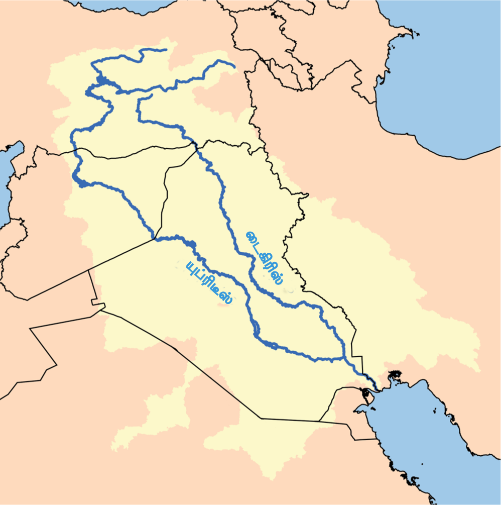 Tigr-euph-ta